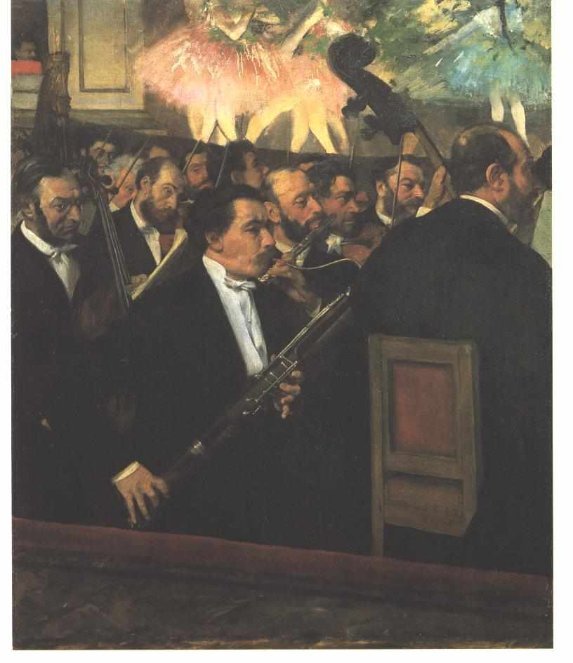 Orchestra in the opera